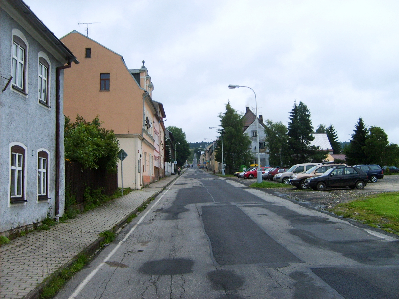 Hamerská main street in renaissance mining town Horní Blatná (Bergstadt Platten) in Carlsbad county.